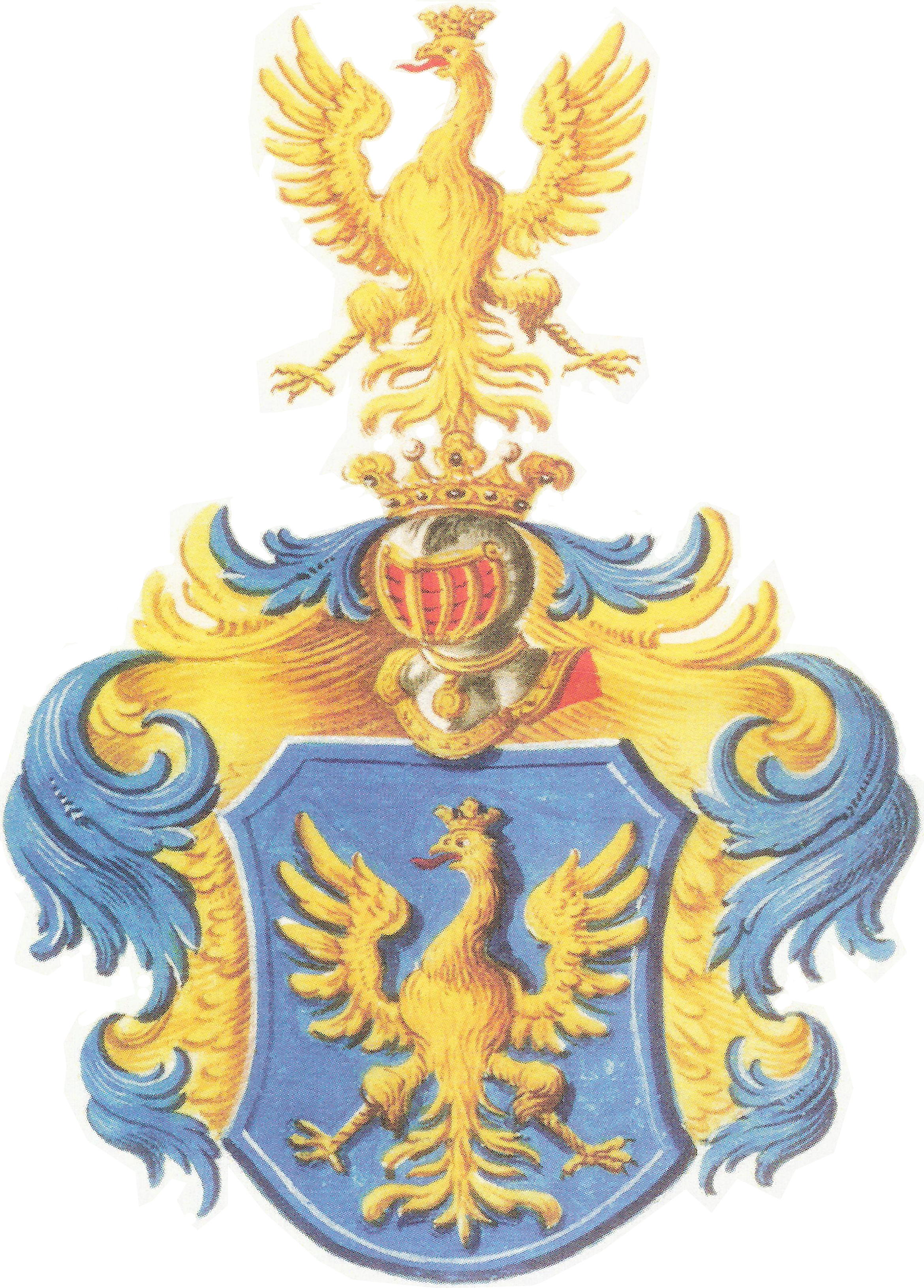 Coat of arms of Cieszyn Piast dynasty